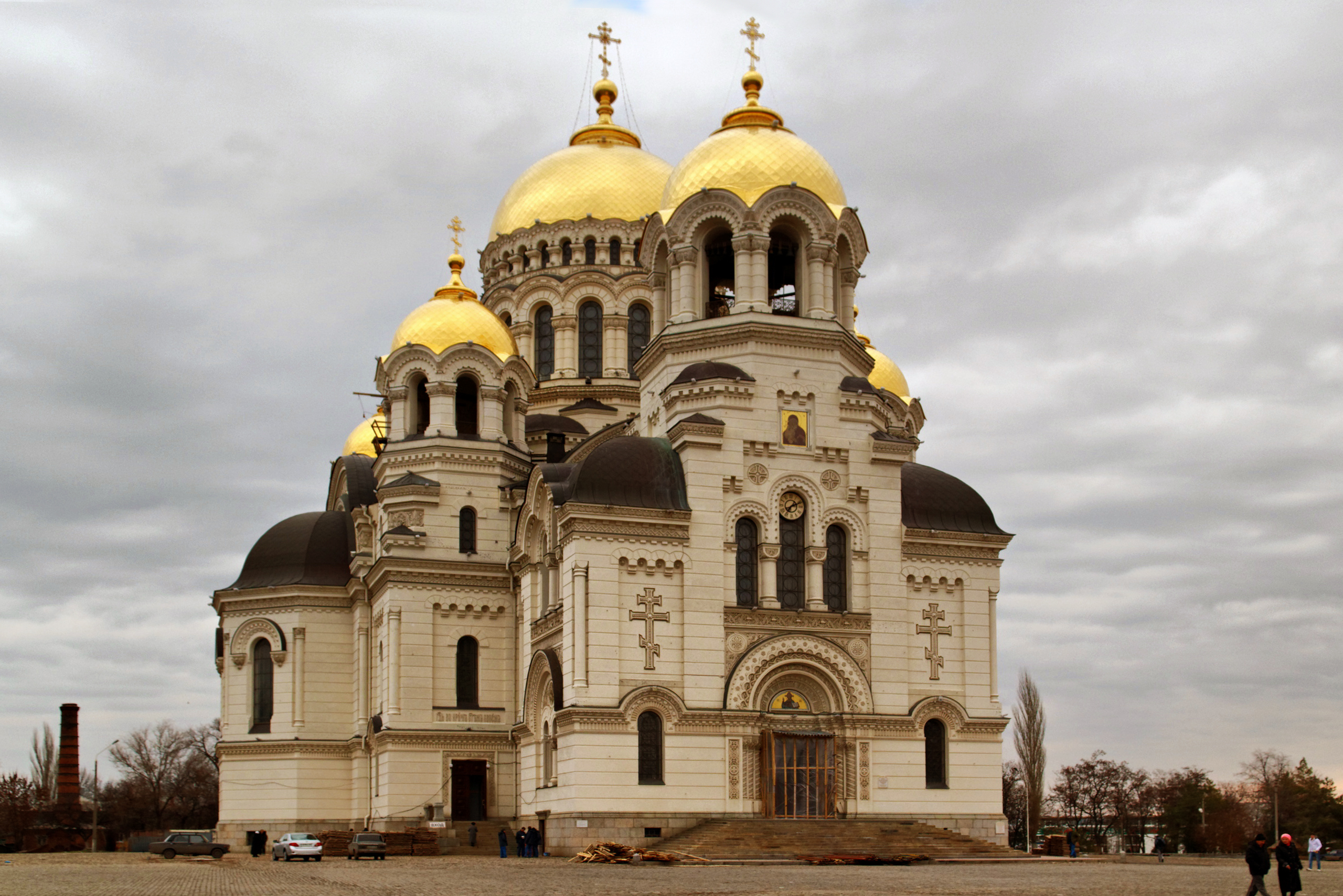 Novocherkassk. Ascension Cathedral